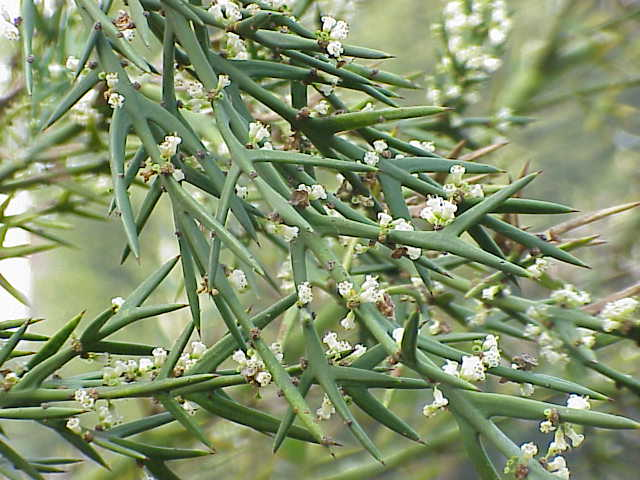 Species: Colletia atrox Family: Rhamnaceae Image No. 2